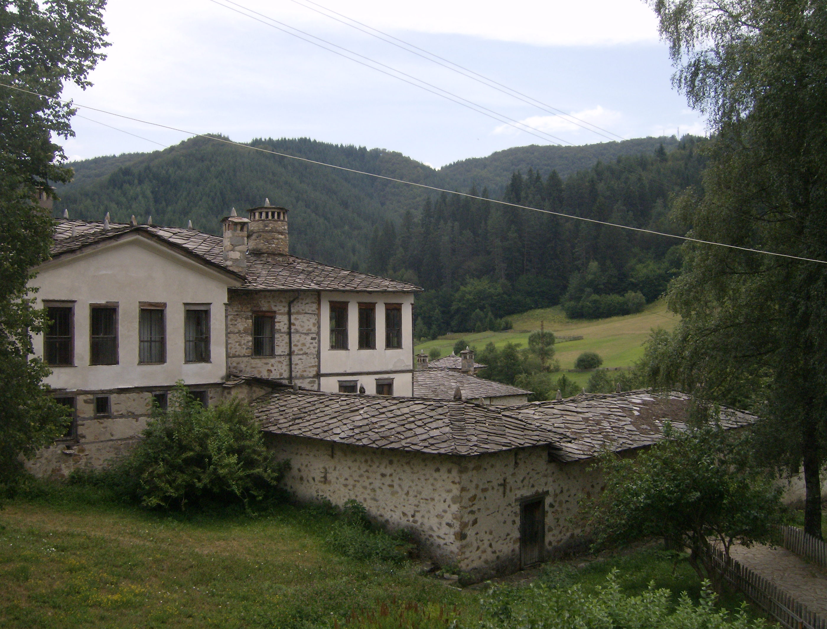 Agushevi konatsi